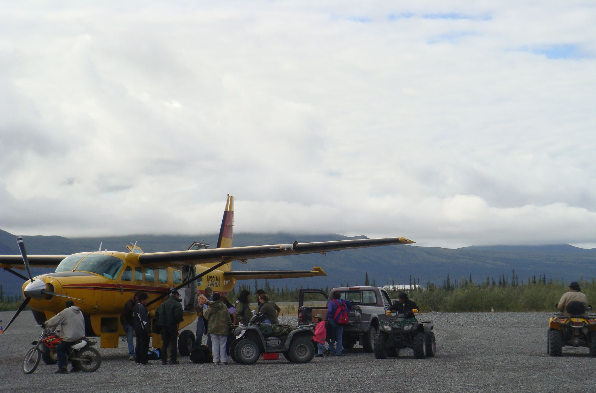 People, four-wheelers, pickup truck, and motorcycle gathered around a plane